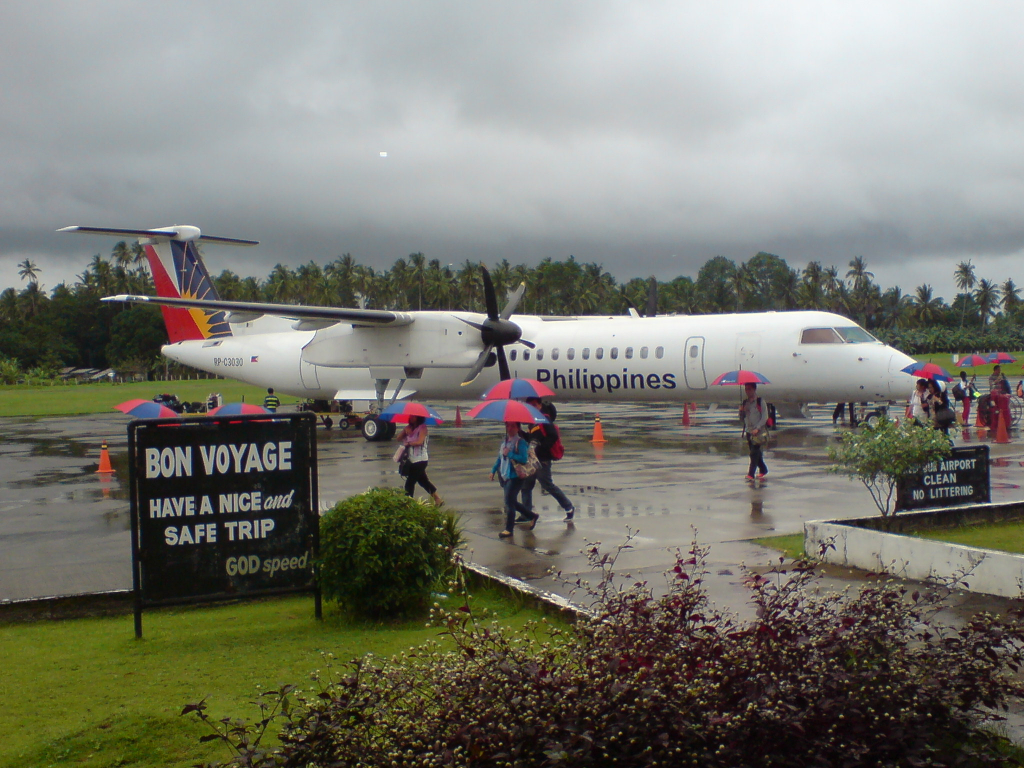 Bombardier Dash 8 Q400 Philippine Airlines at Ozamiz Airport, Philippines